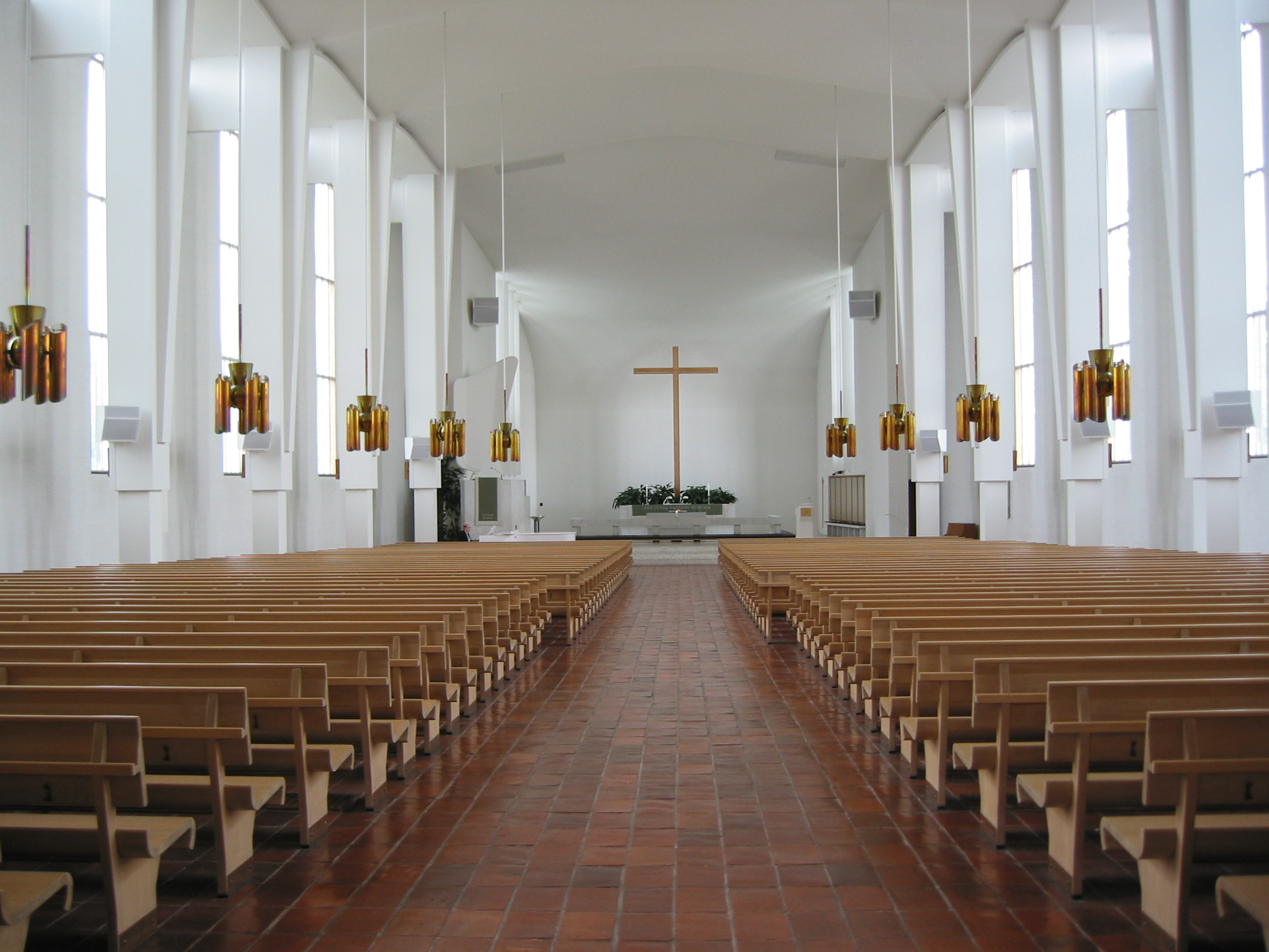 Interior of Lakeuden risti church in Seinäjoki, Finland